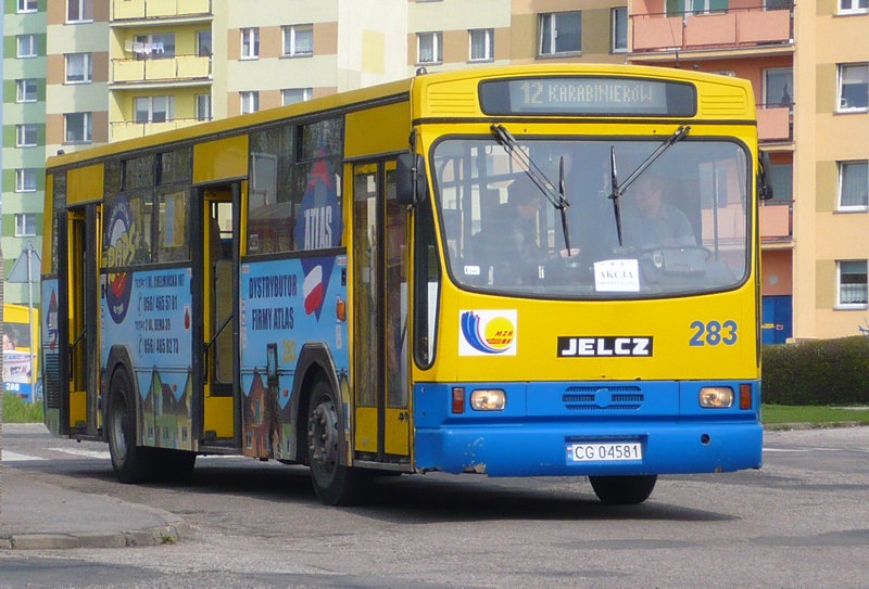 Jelcz 120MM/1 bus (#283) in Śniadeckich street, Grudziądz, Poland. Built 1997, MZK Grudziądz operator.